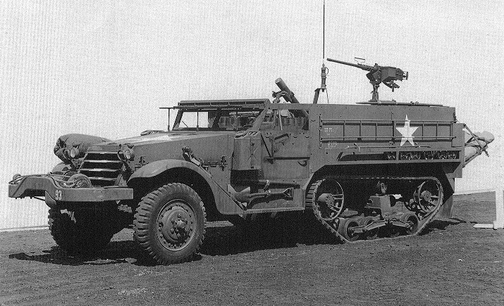 M21 81mm Mortar Carrier at tests